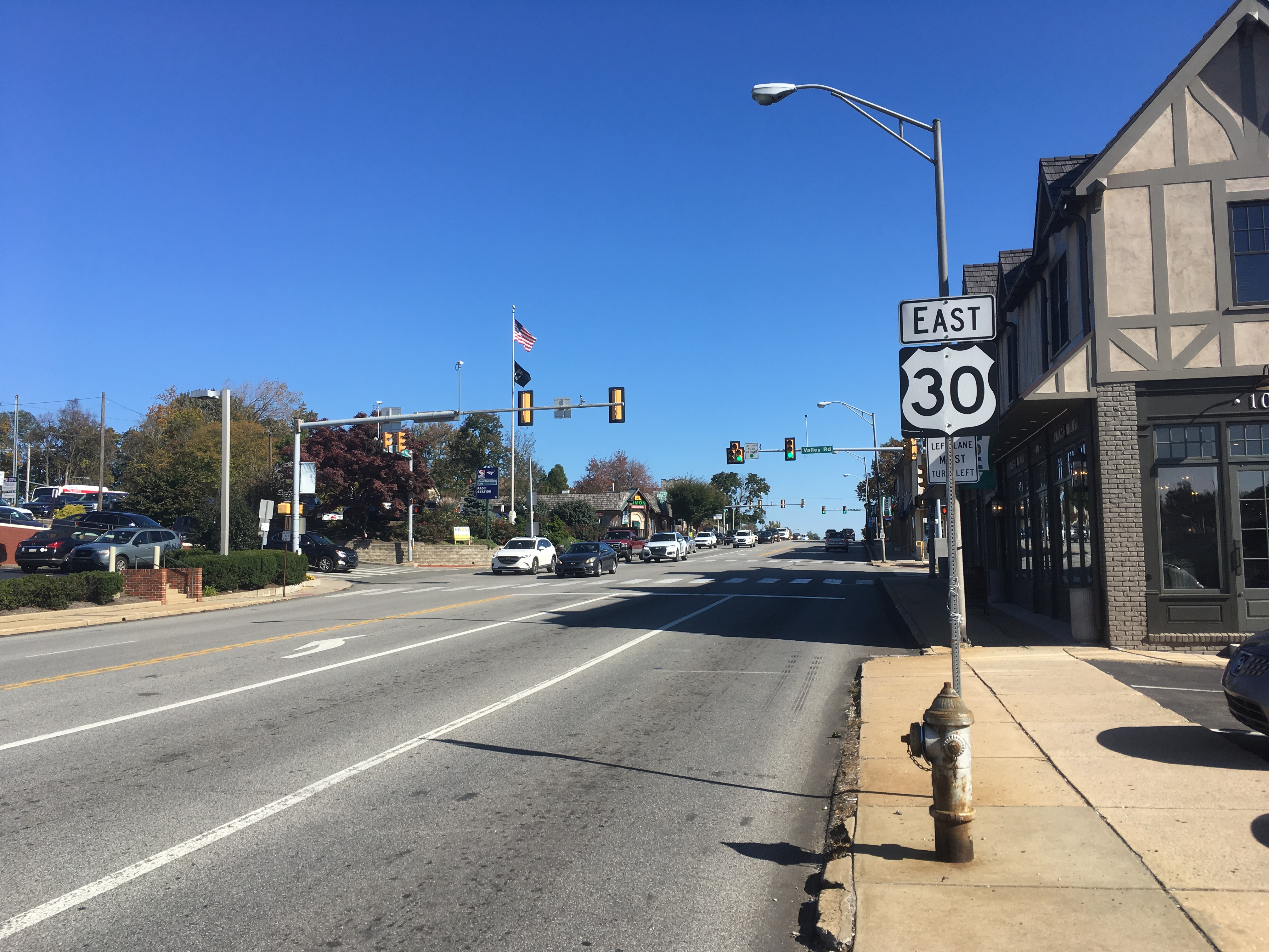 Eastbound U.S. Route 30 (Lancaster Avenue) between Paoli Pike and Valley Road in Paoli, Pennsylvania